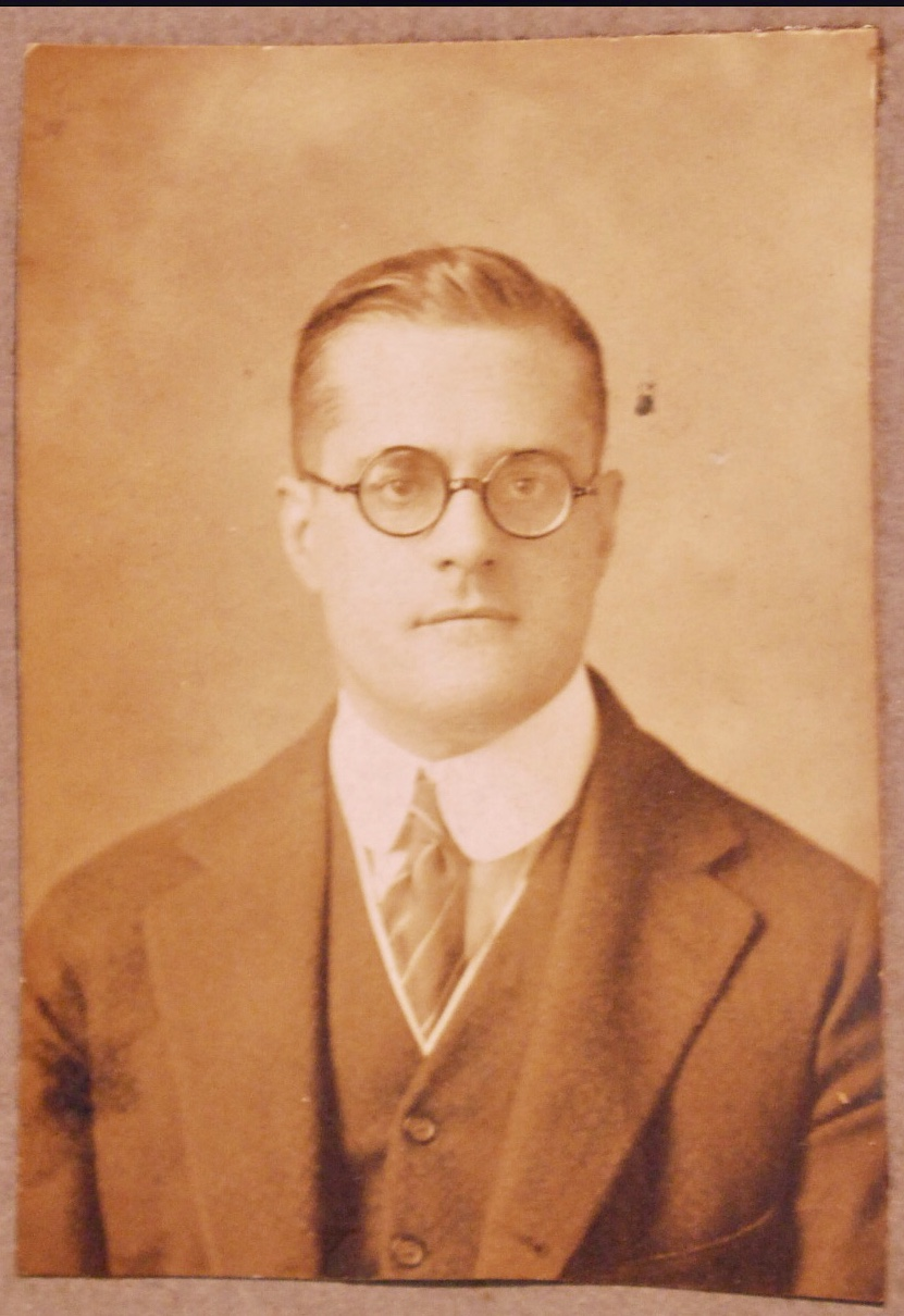 Albert Clark Serpell